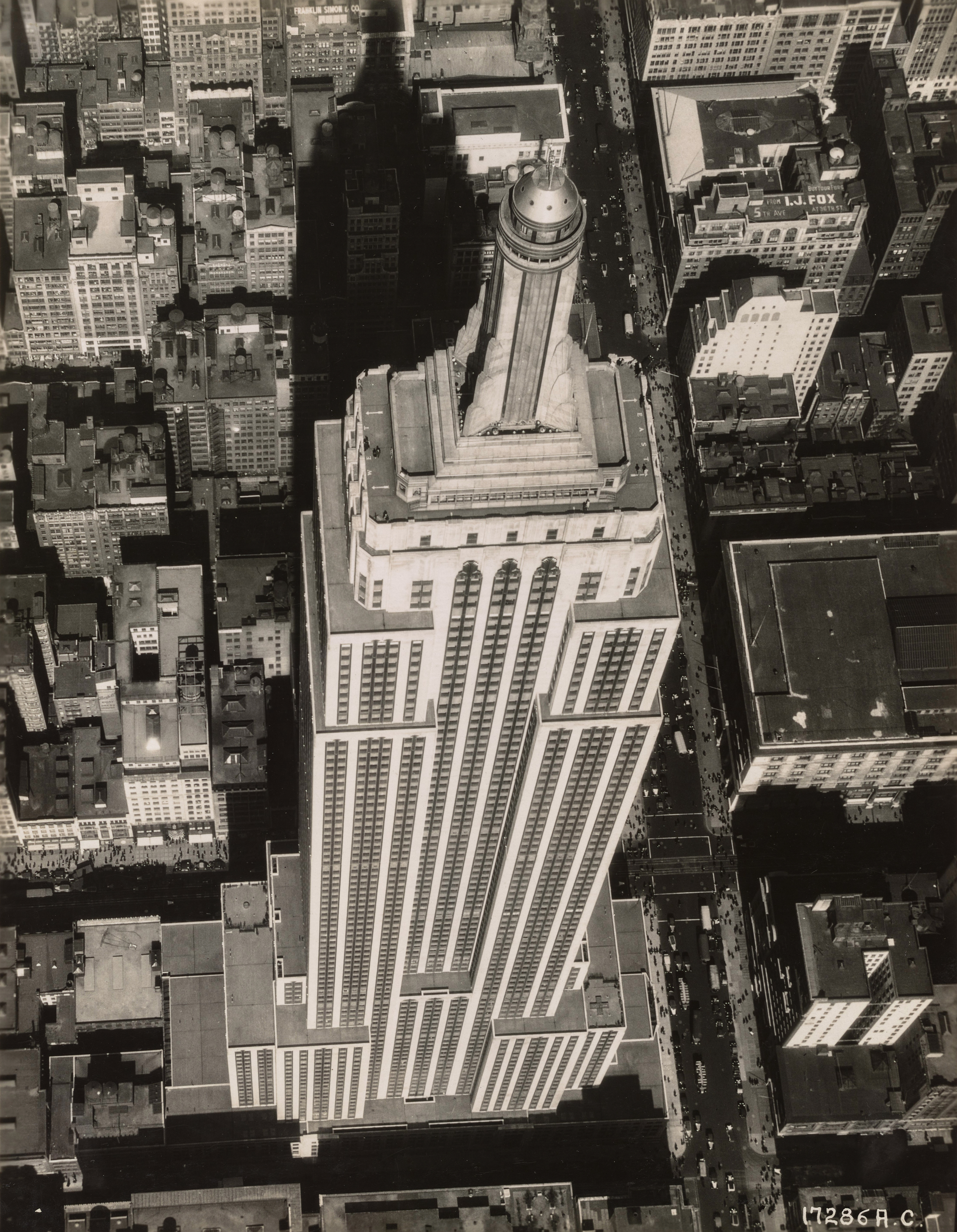 General notes: Crop of File:New York - New York City - NARA - 68145840 (page 1).jpg